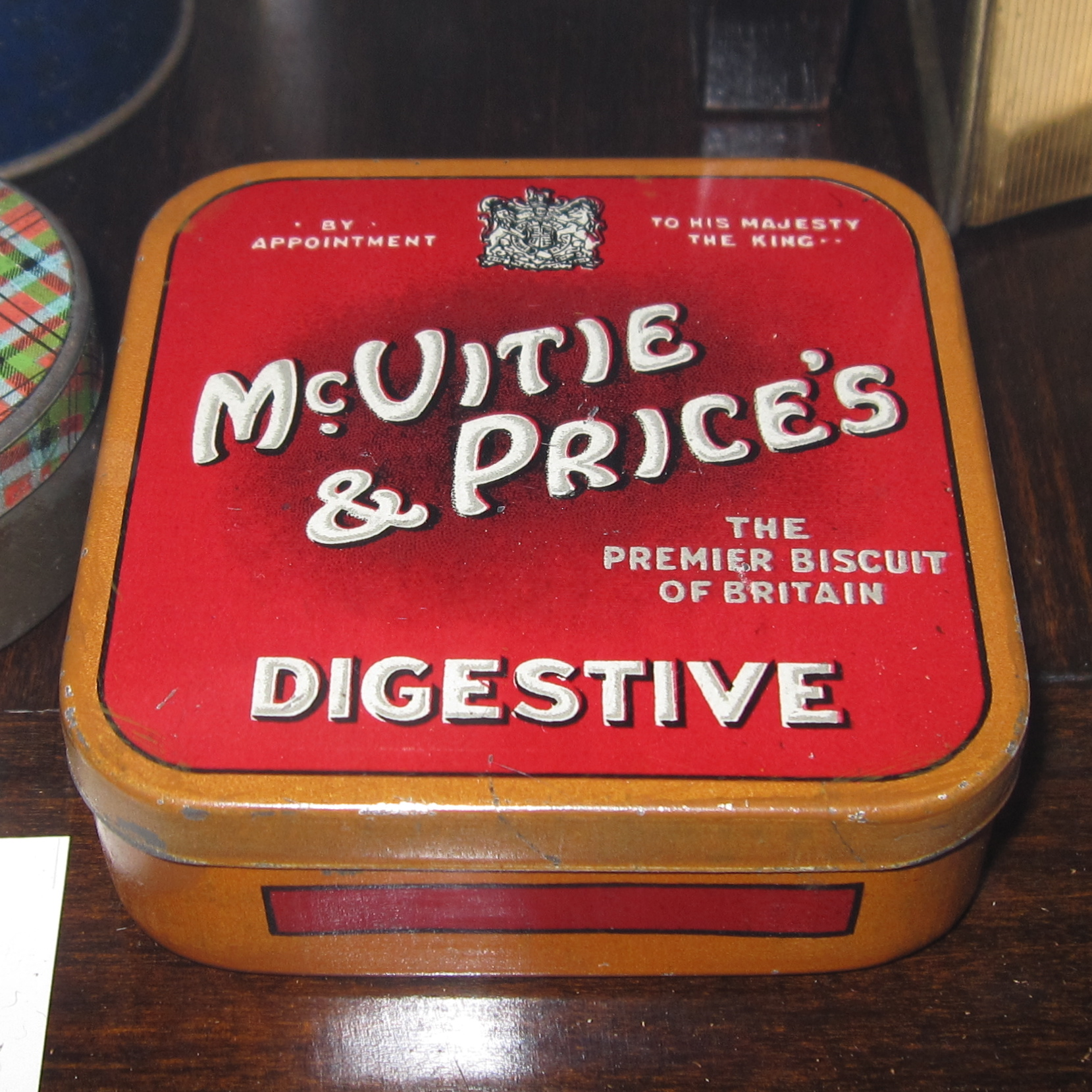 McVitie & Price's Digestive factory sample, 1870-1900. Manufacturers often produced sample-sized boxes to promote their latest designs and products. Victoria and Albert Museum.